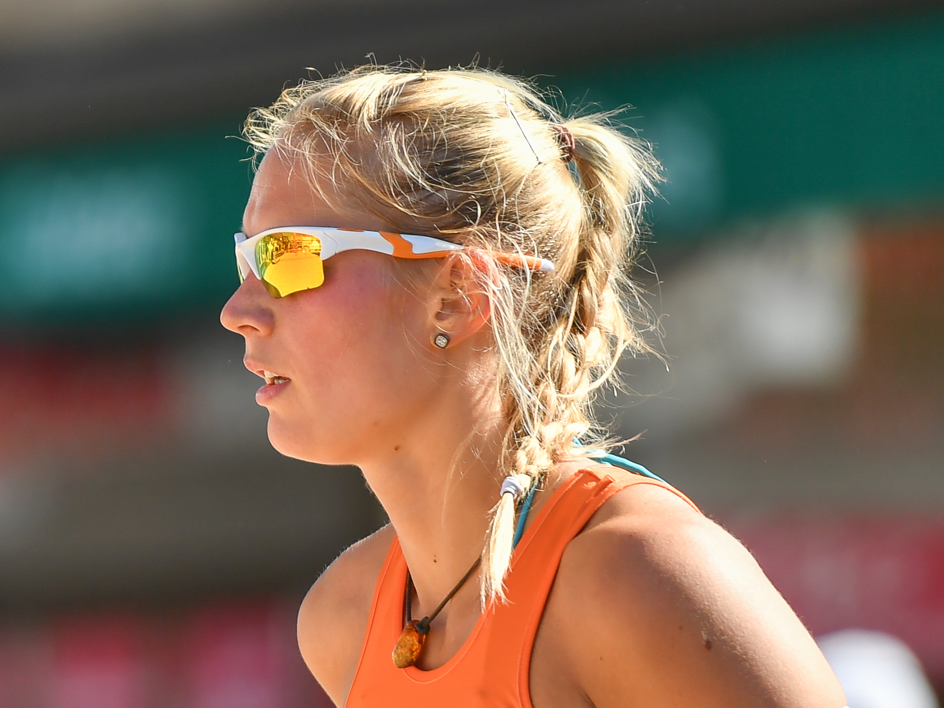 27/5/2017, Nuremberg, Germany, Sports, beach volleyball, smart beach cup Nuernberg.